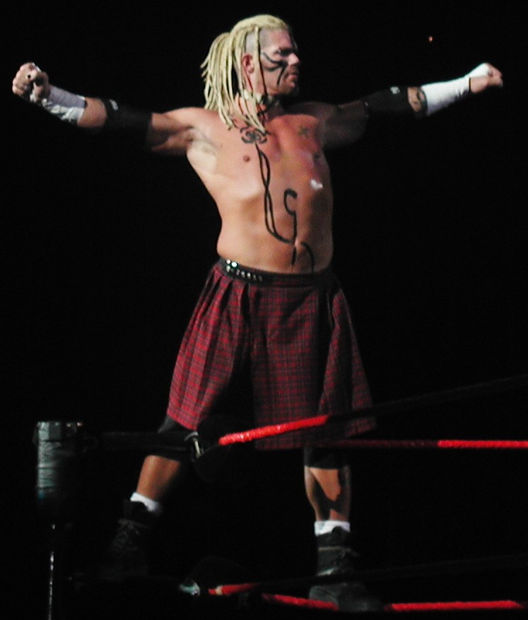 Professional Wrestler Raven at a WWE Raw live event in Rosemont on Sept 12002.